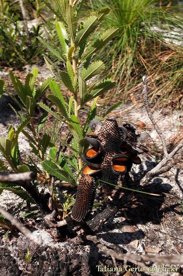 Banksia aemula recovering with new growth from lignotubers. Also you can see burned cone, seed released.